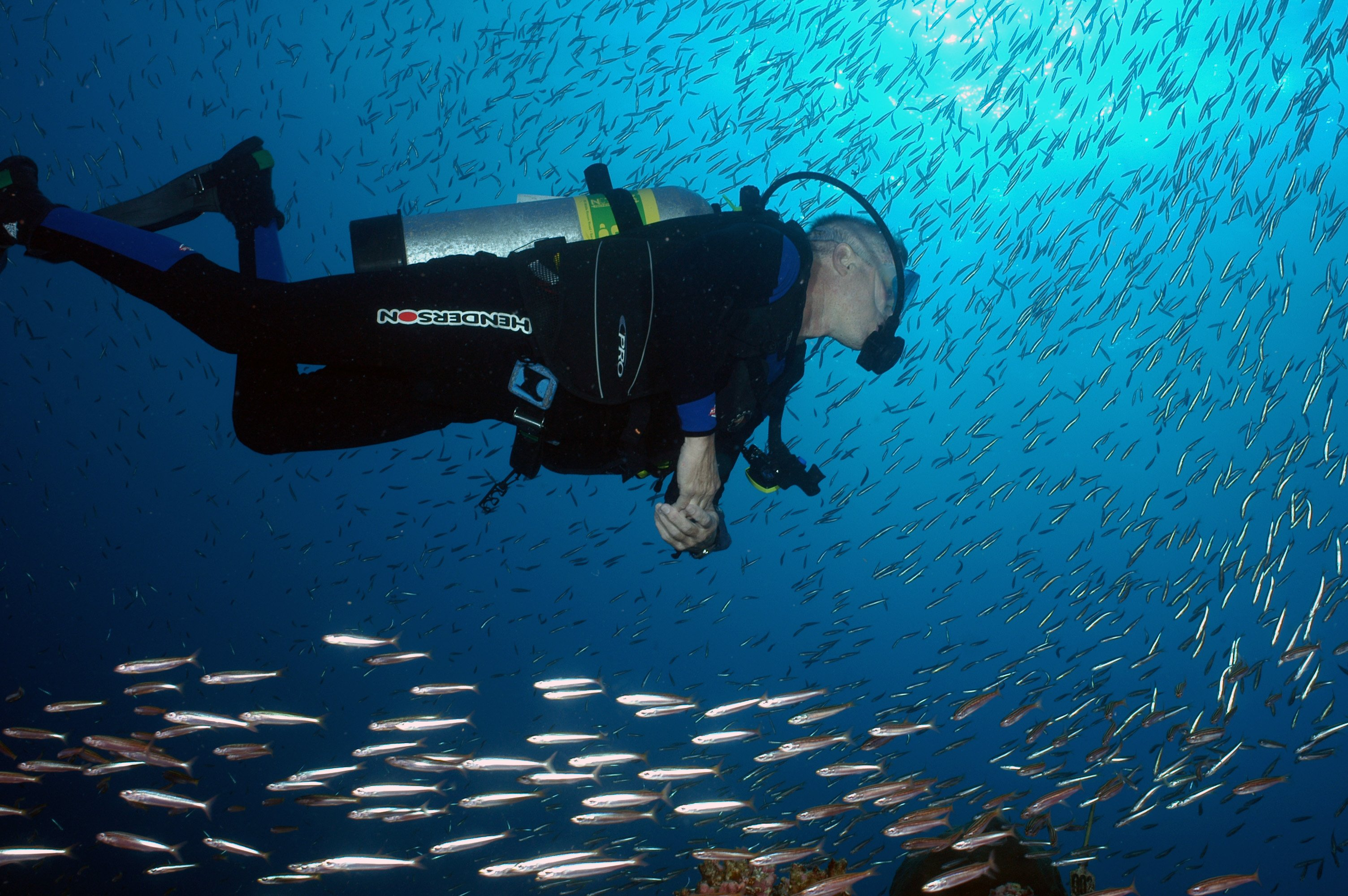 A scuba diver swims amid a school of fish. Flower Garden Banks Nationa Marine Sanctuary.